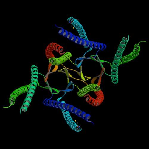 This is the crystal structure of an archaeal prefoldin taken from the archaea bacteria Methanobacterium thermoautotrophicum. The image was produced by Siegerts, R., Scheufler, C., Moarefi, I. using X-Ray defraction. The protein contains three subunits of unique polymer chains. This image can be found at PD-USGov .